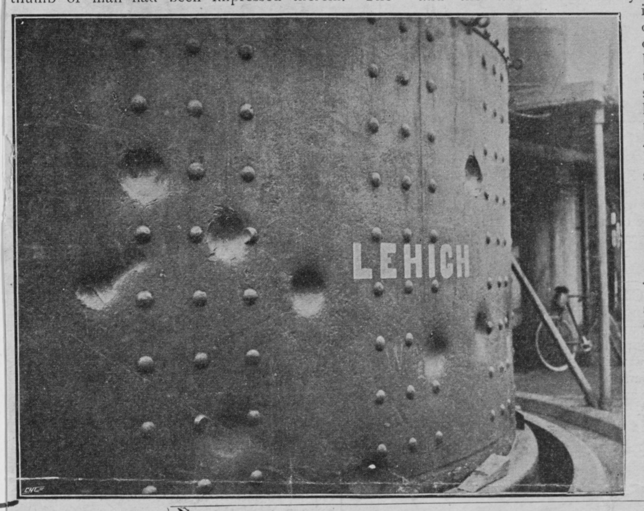 Title: USS Lehigh Description: (1863-1904) Halftone reproduction of a close-up photograph published in the Strand Magazine, 1st Quarter 1901, showing dents in the monitor's turret armor made by Confederate cannon shot during the Civil War. These same dents are visible in Photo # NH 59436, taken circa 1864-65. Bicycle on the right, wedge on the floor U.S. Naval History and Heritage Command Photograph. Catalog #: NH 51302